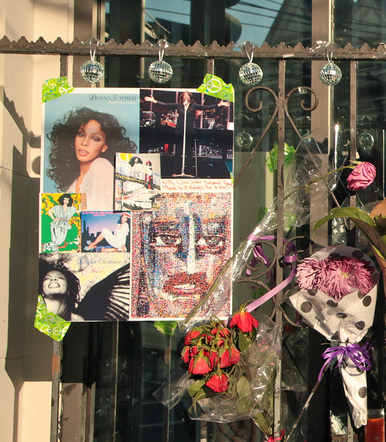 Tribute to Donna Summer in the Castro District, San Francisco.